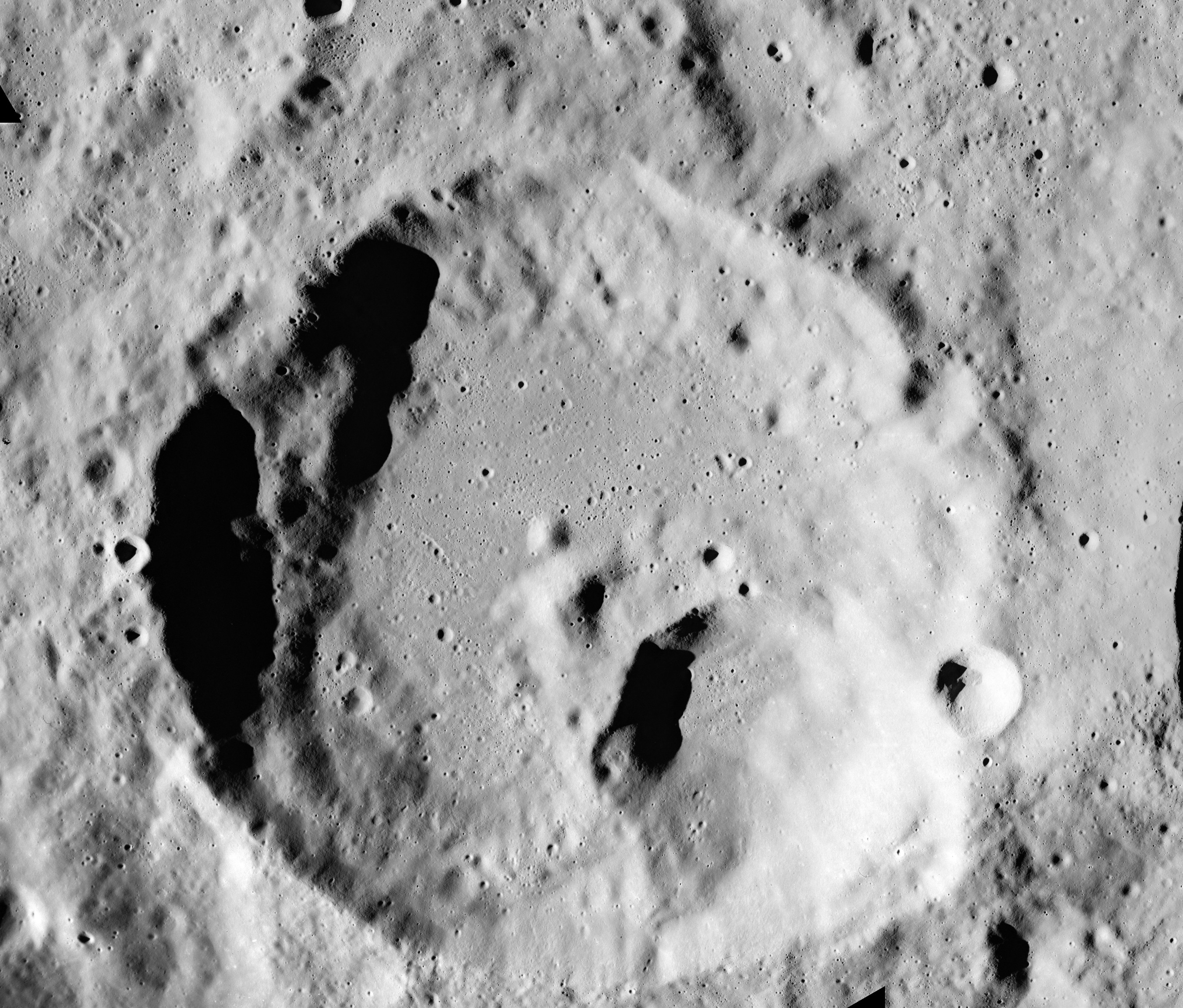 Valier crater, on the far side of the moon. From Revolution 3 of the Apollo 16 mission.